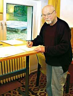 Günter Kochan (1930-2009), German composer